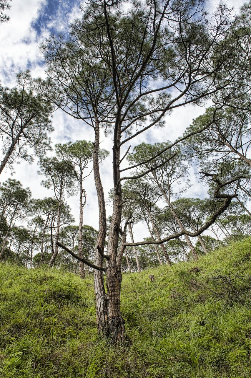 Chir Pine Pinus roxburghii, Bhutan